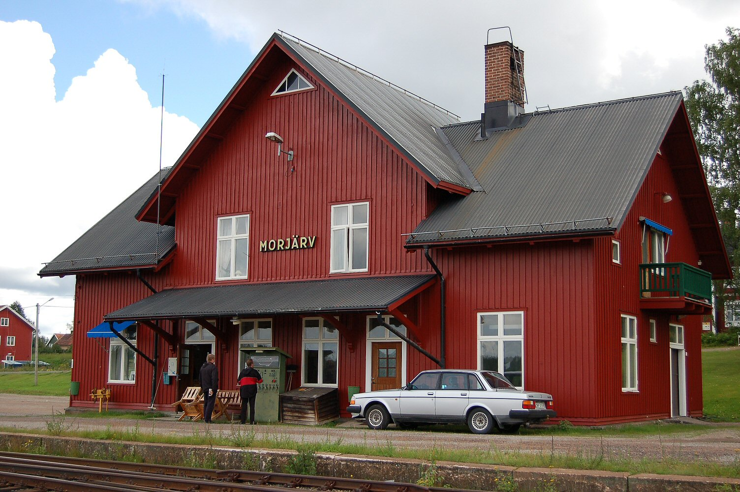 Railway station in Morjärv, Sweden, on the Haparandabanan (Boden—Haparanta)